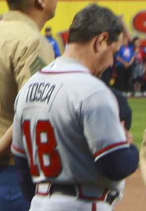 Service members stand next to players of the Atlanta Braves awaiting the start of the national anthem during the pre-game ceremony of New York Mets versus the Atlanta Braves Military Appreciation Night game at Citi Field on May 26. The various events to commemorate Memorial Day around New York are being conducted with active duty and reserve service members stationed in the Greater New York City area. (U.S. Marine Corps photo by Sgt. Caleb Gomez).